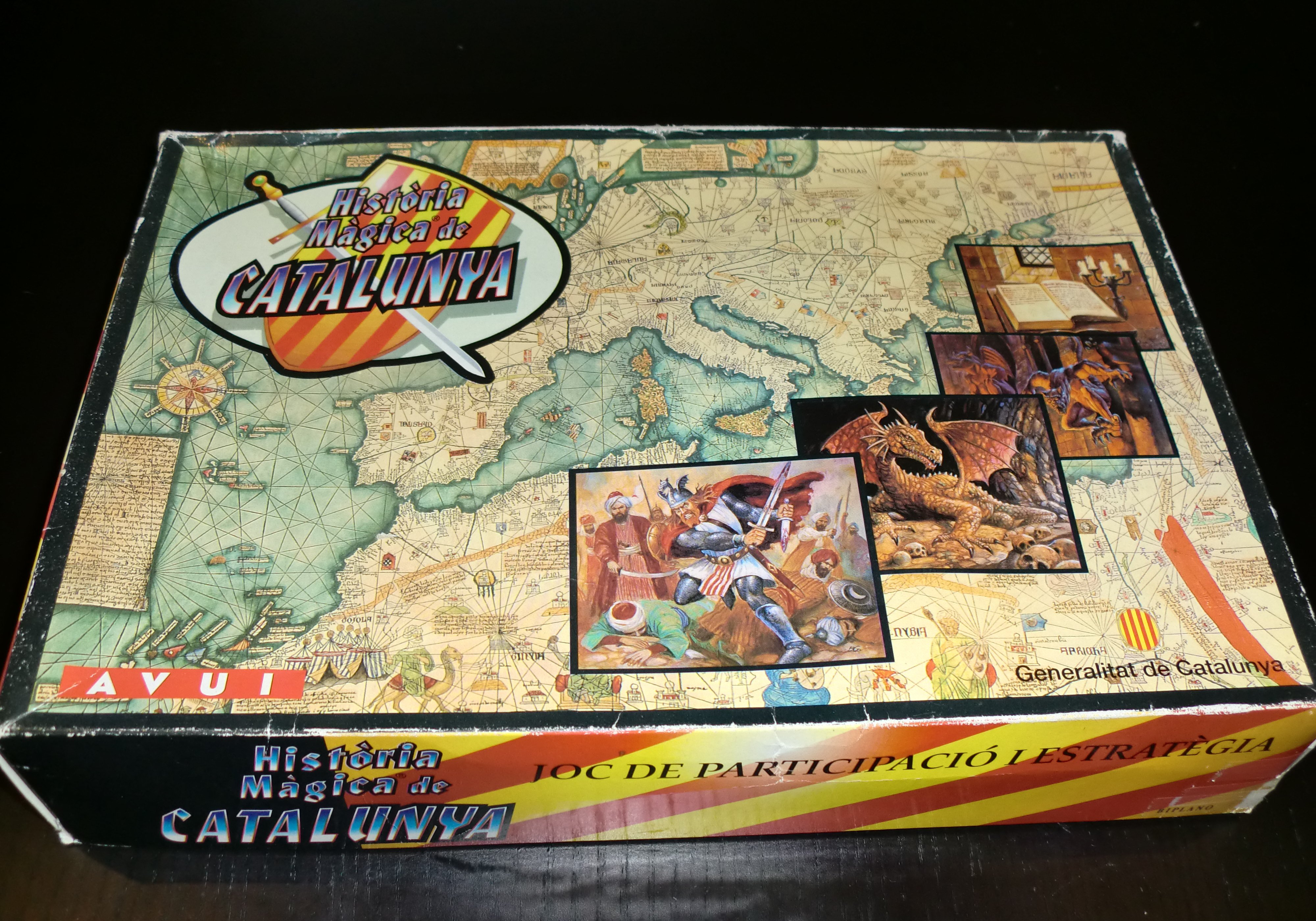 discontinued boardgame historia magica de catalunya